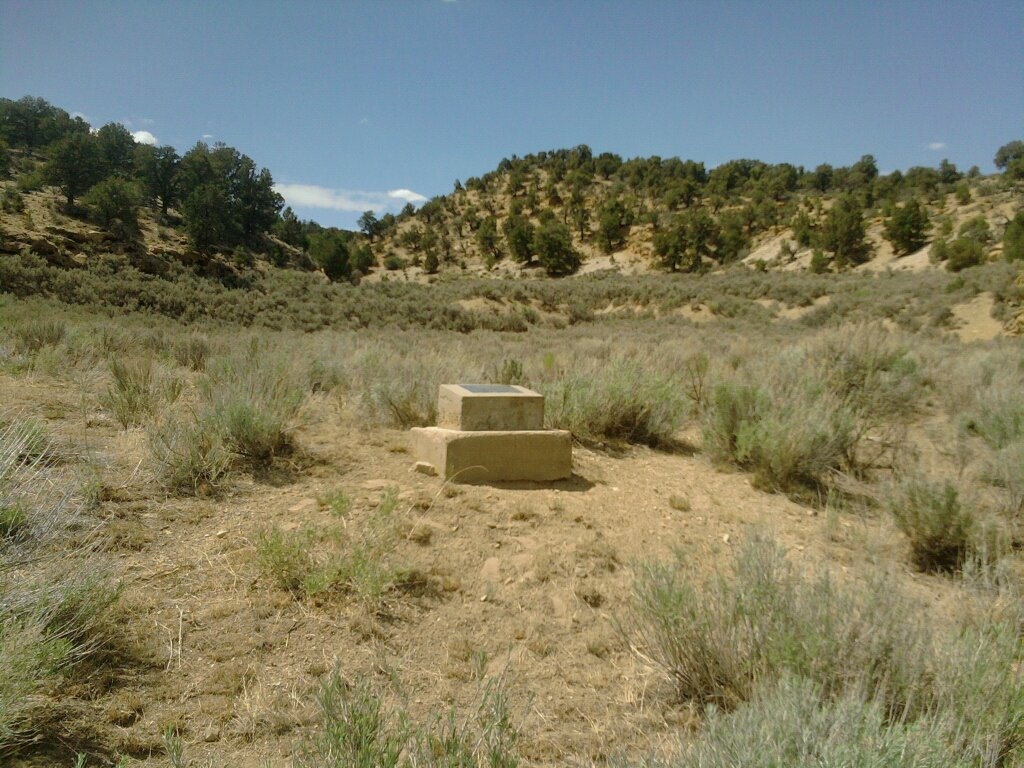 Plaque marks the top of the well where 3 nuclear devices were detonated in a natural gas fracking test.